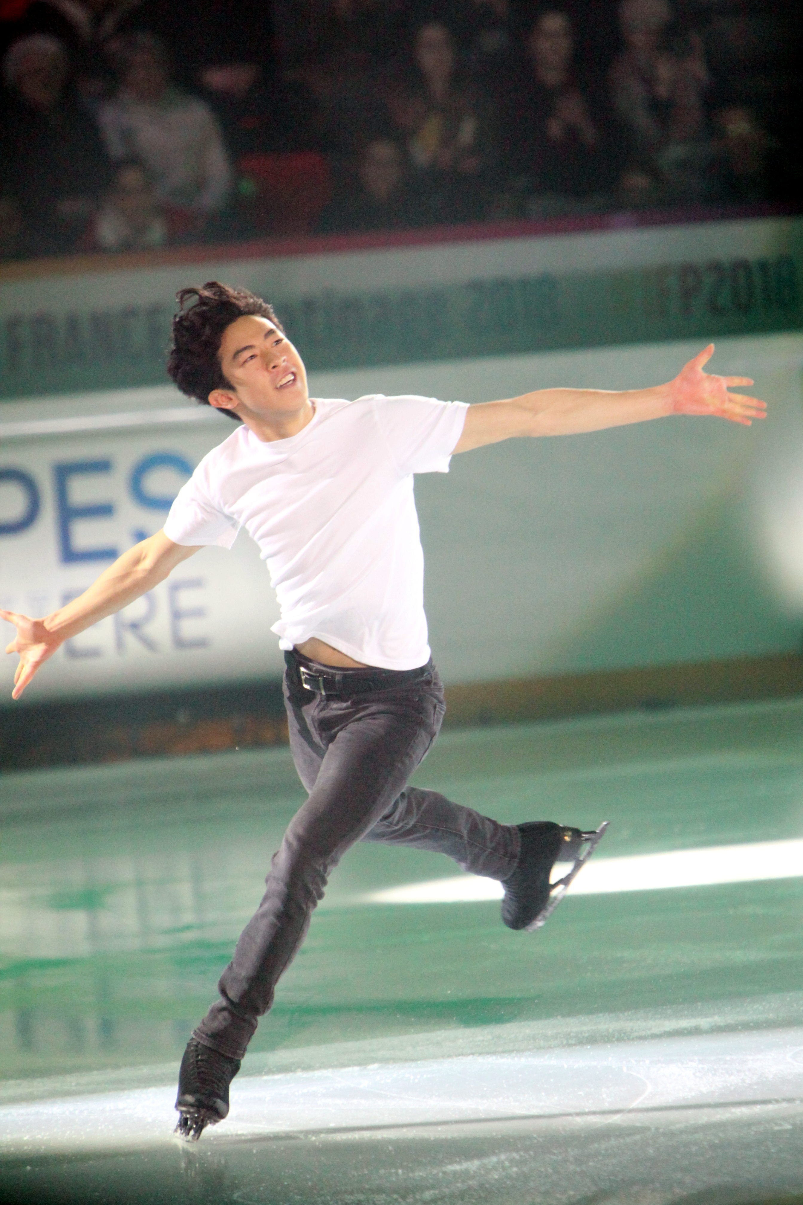 Nathan_Chen during the gala at the Internationaux de France de Patinage 2018.